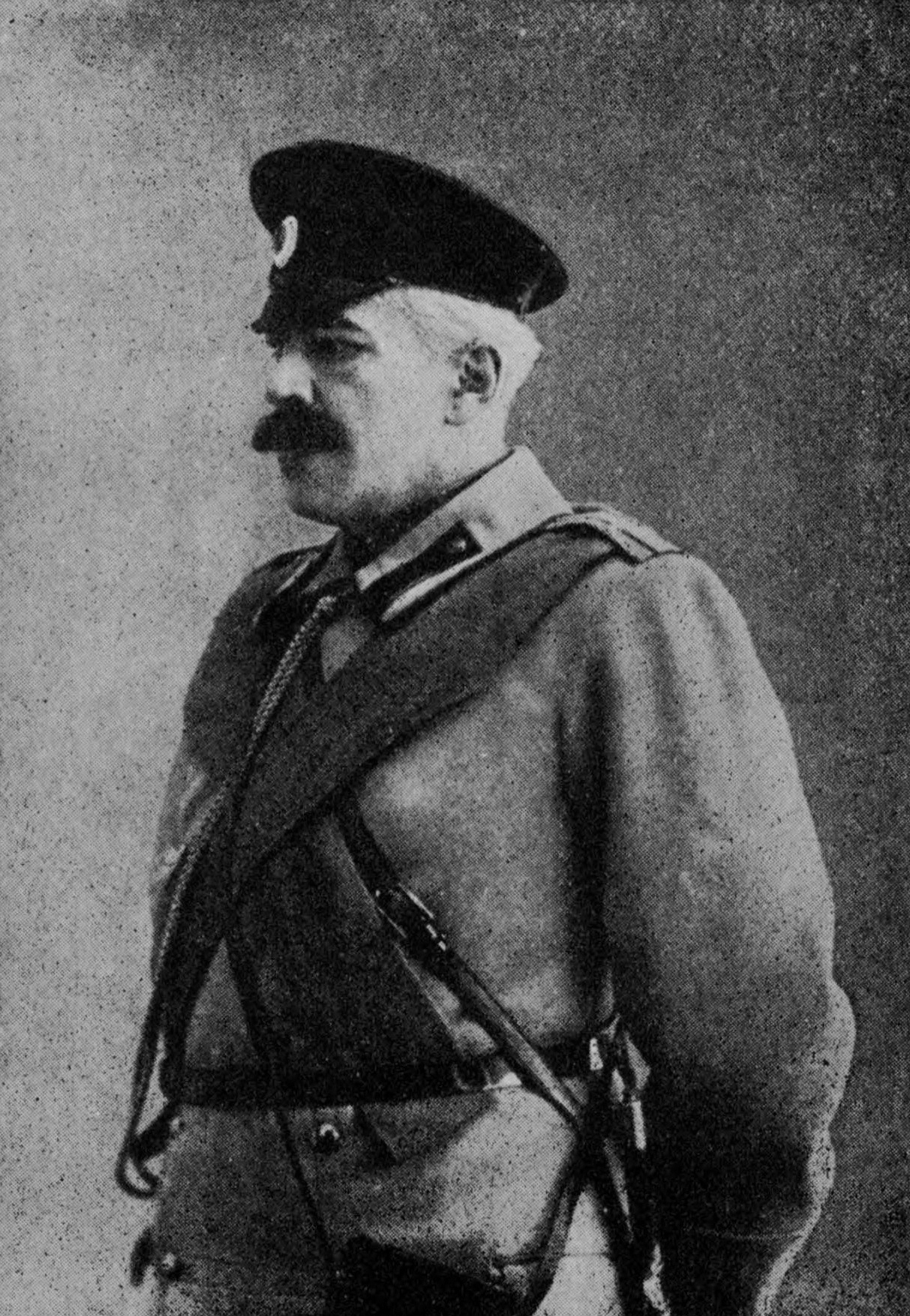 Stanislavski